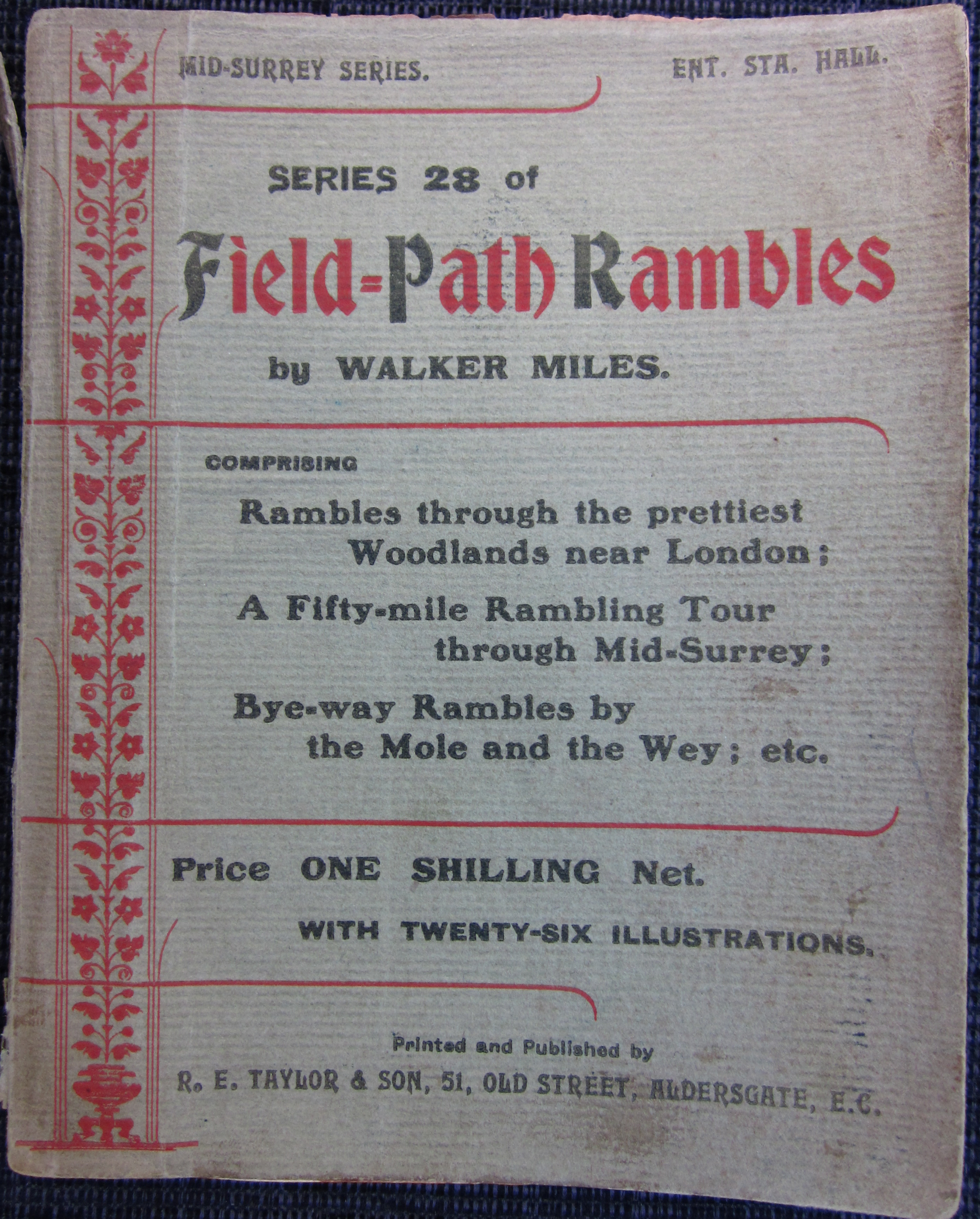 Cover of Field-path guide 28, Walker Miles.